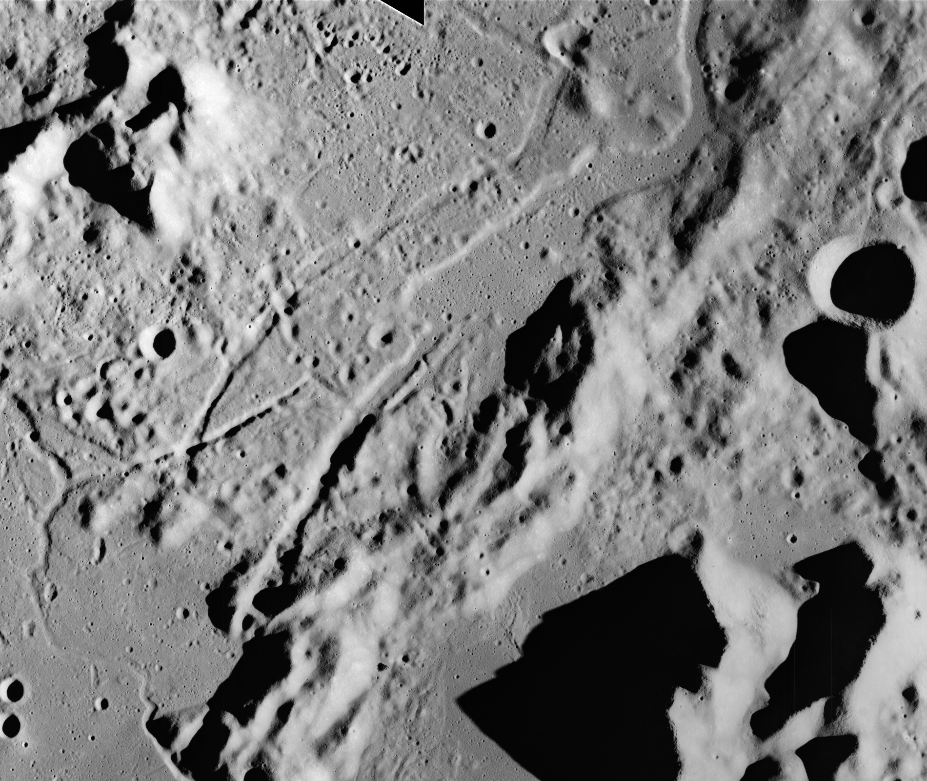 Rimae Fresnel, a series of graben, just west of the Montes Apenninus, on the moon.